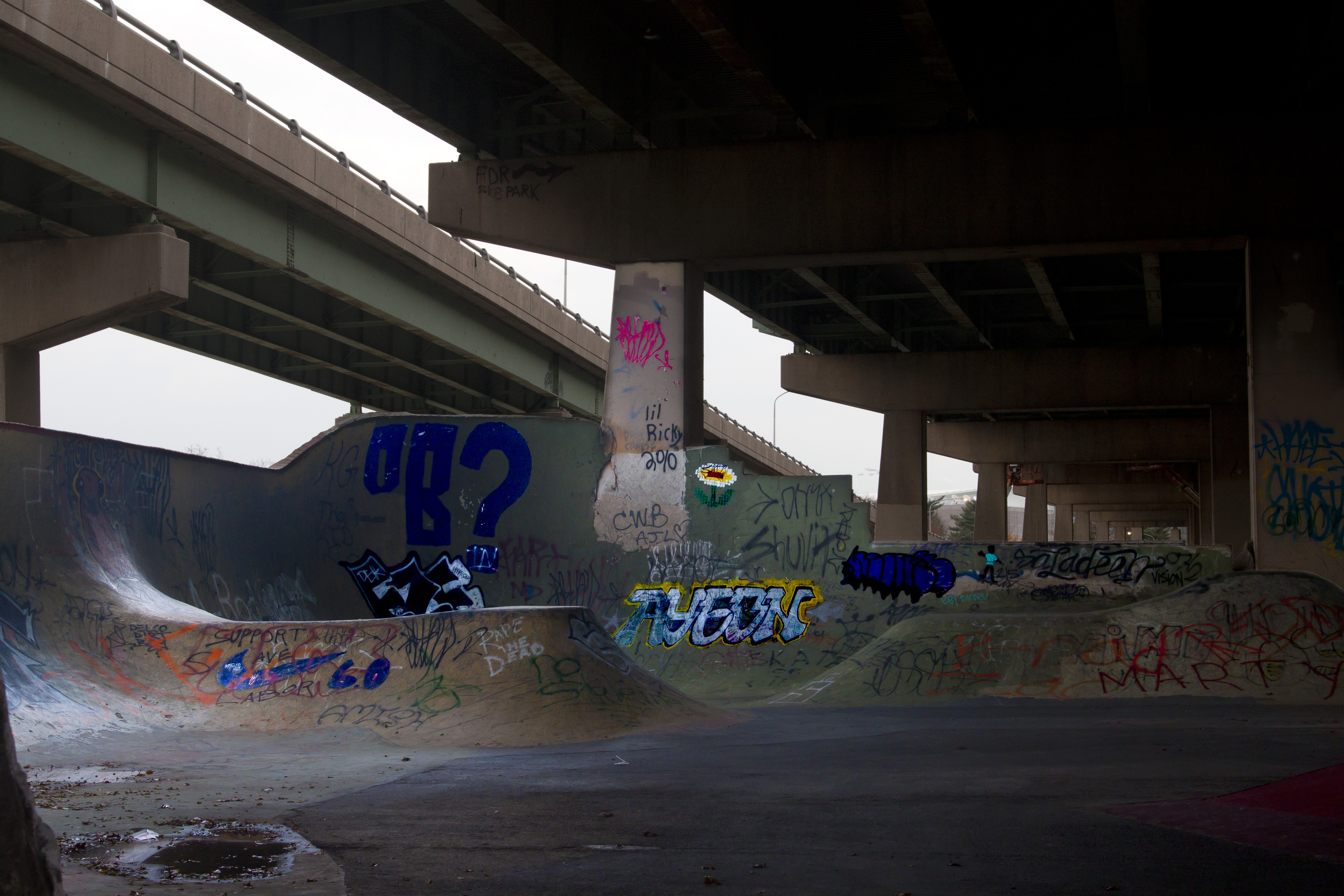 This is the skateboard park under I-95 in FDR park. Taken by Jeffrey Phillips Freeman. Originally posted to flickr at